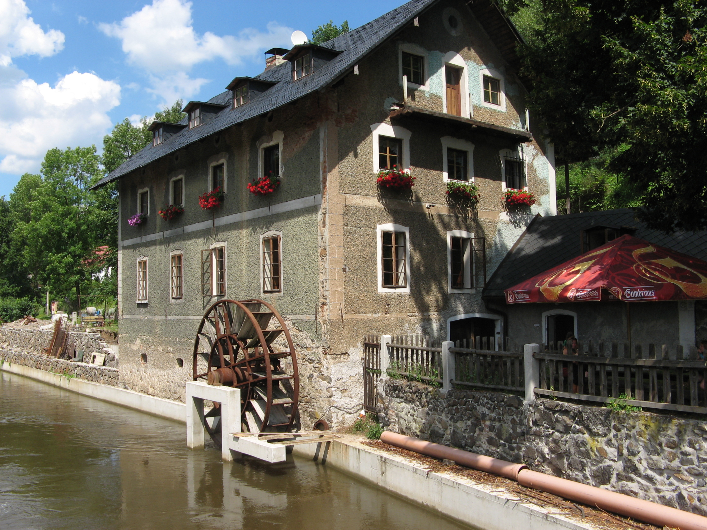 Jakubov Mill, municipality of Vojkovice, Karlovy Vary District, Karlovy Vary Region